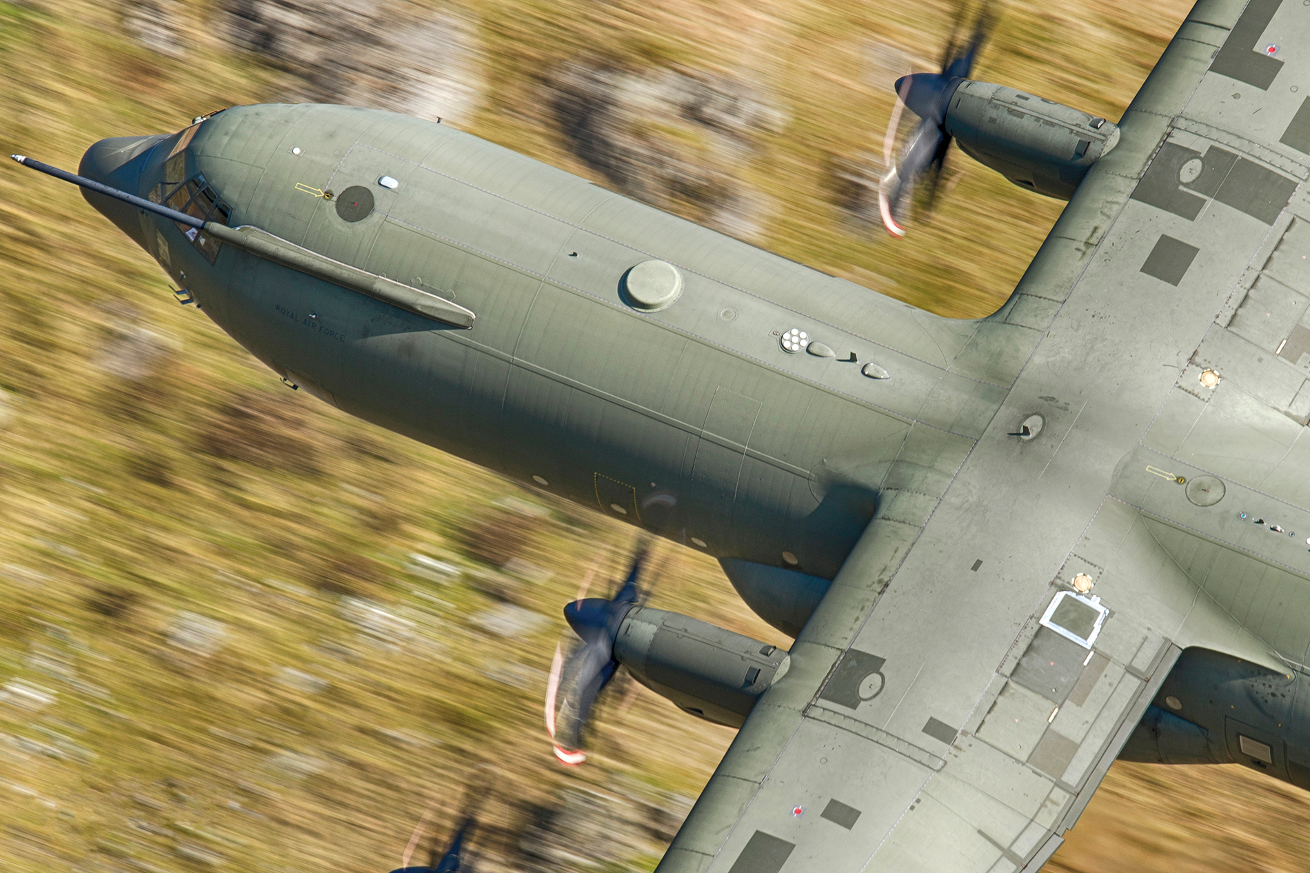 A Royal Air Force Lockheed C-130J Hercules flies through Mach Loop, Wales